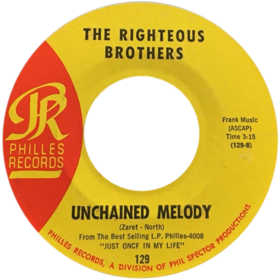 "Unchained Melody" by Righteous Brothers 1965 US vinyl